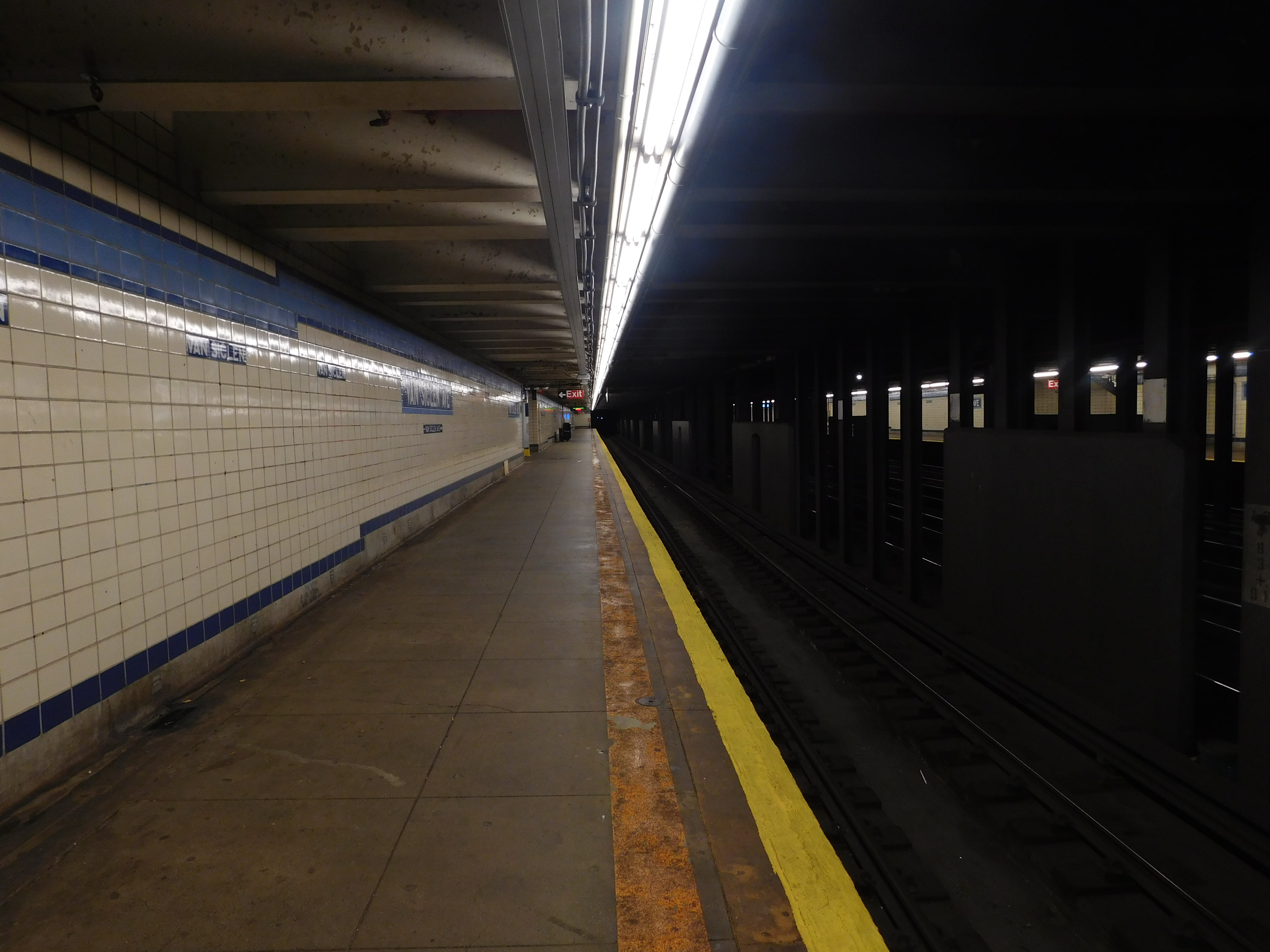 Van Siclen Avenue station of the IND Fulton Street Line in October 2019.